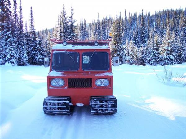 Thiokol IMP snowcat with a full cargo/passenger body box. Manufactured by the Thiokol Ski-Lift and Snowcat division of Thiokol Chemical Corp in Logan Utah.